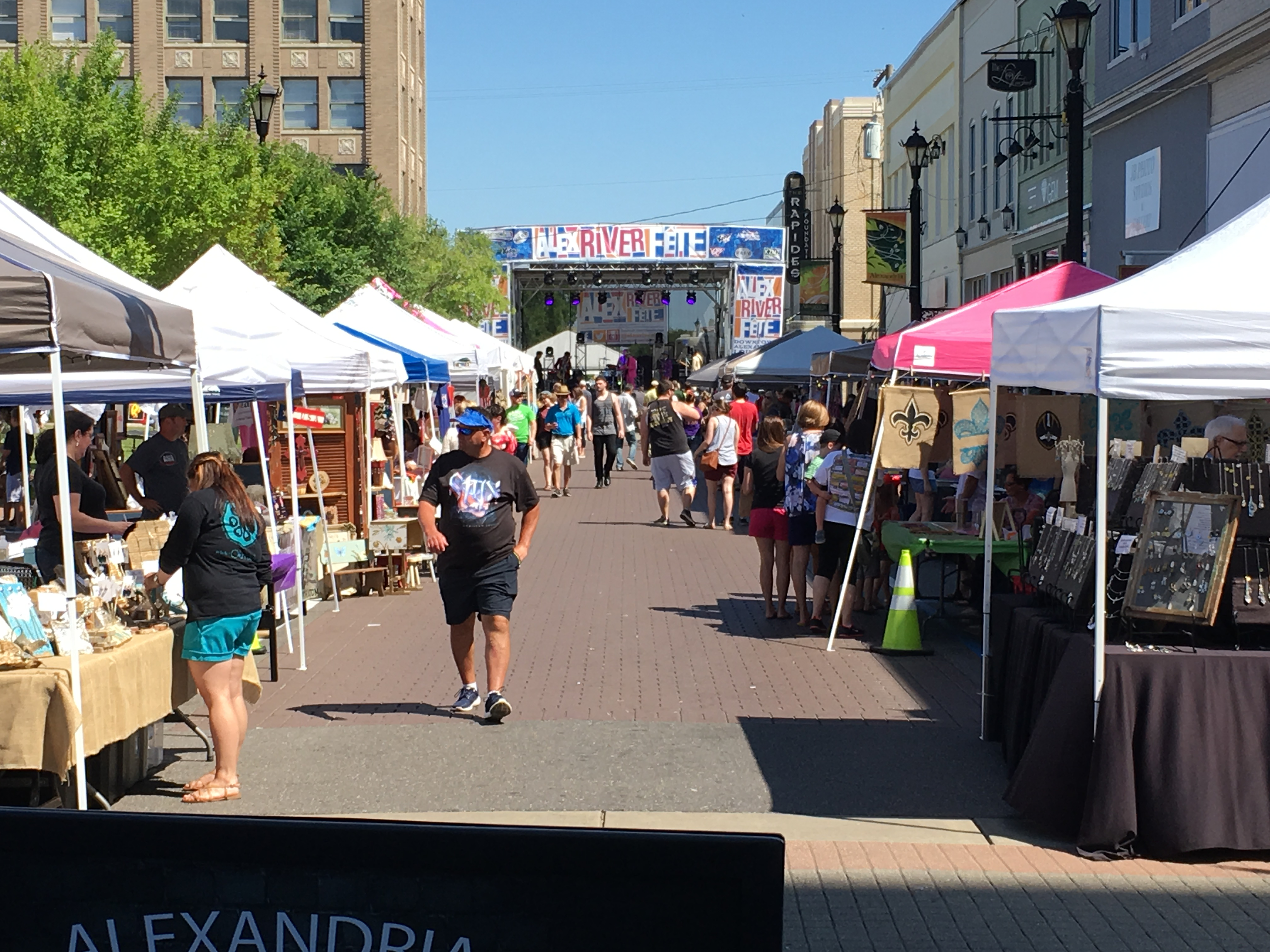 Booths at the annual Alex River Fête in downtown Alexandria, Louisiana, United States.